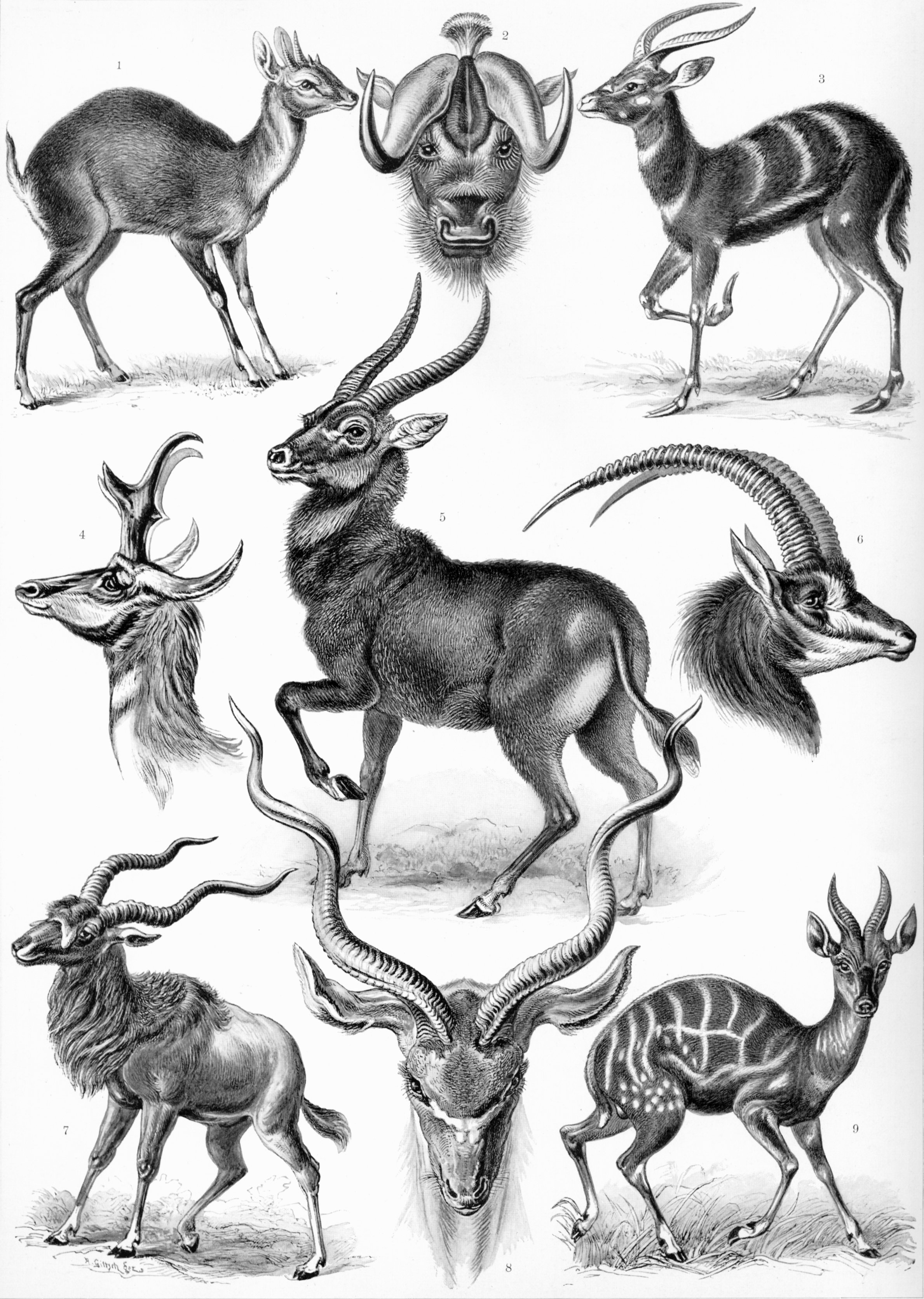 1: Four-horned Antelope 2: Black Wildebeest 3: Sitatunga 4: Pronghorn 5: Waterbuck 6: Sable Antelope 7: Addax 8: Greater Kudu 9: Bushbuck